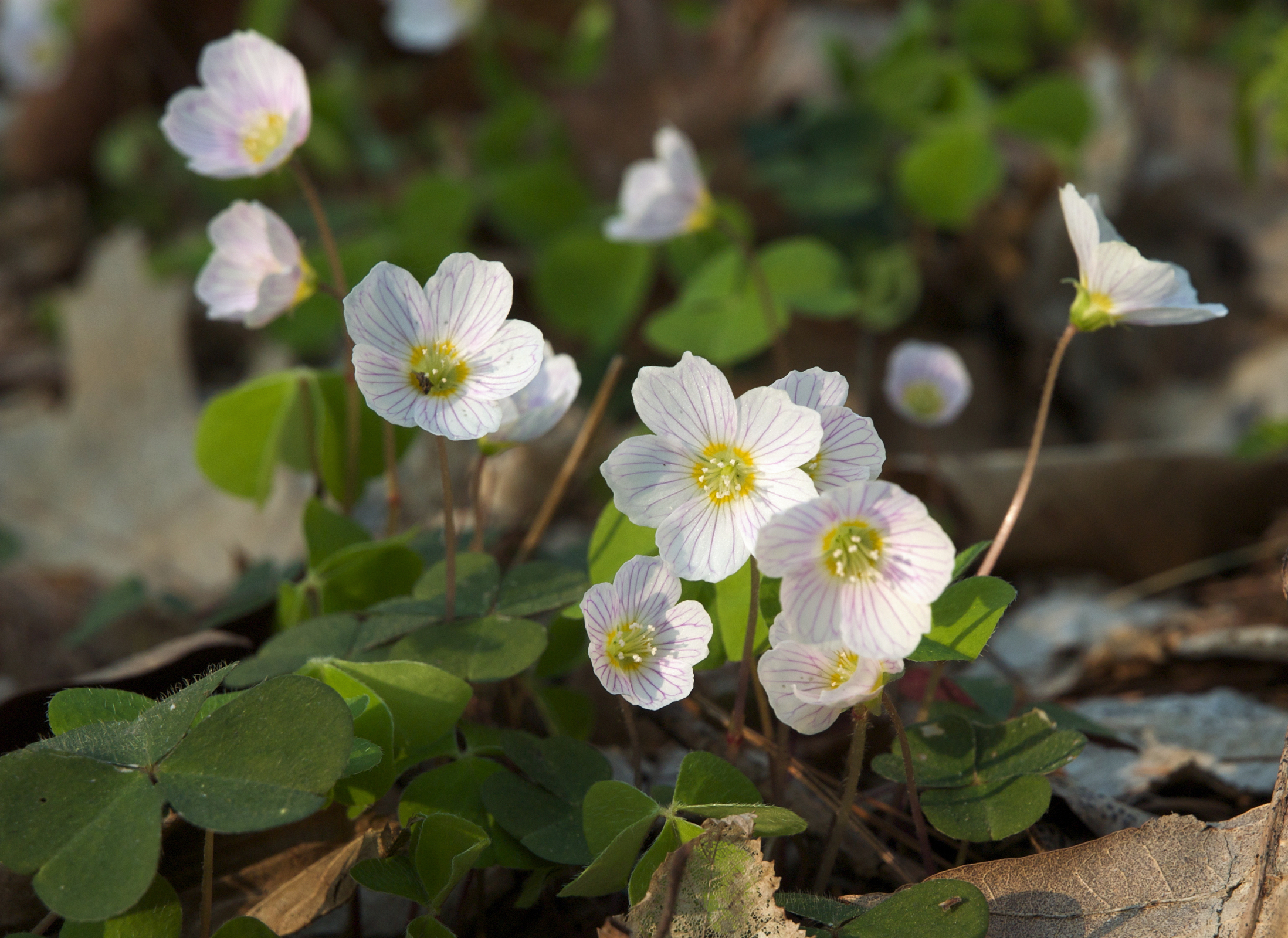 Common Woodsorrel (Oxalis acetosella), Chemnitz, Germany